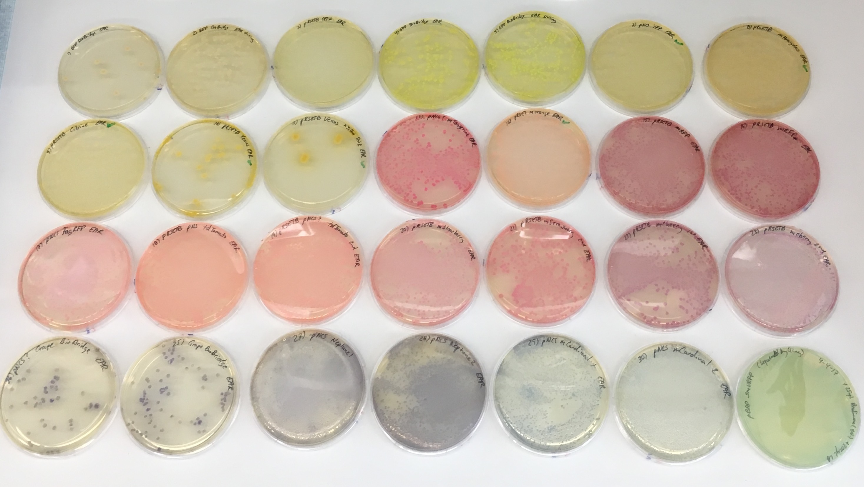 E. coli expressing fluorescent proteins. Picture taken by Erik A. Rodriguez.